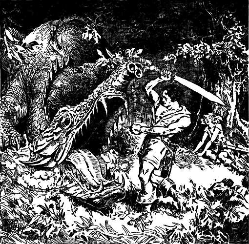 Illustration of a scene in Robert E. Howard's "Red Nails": this picture was first published in Weird Tales (July 1936, vol. 28, no. 1).